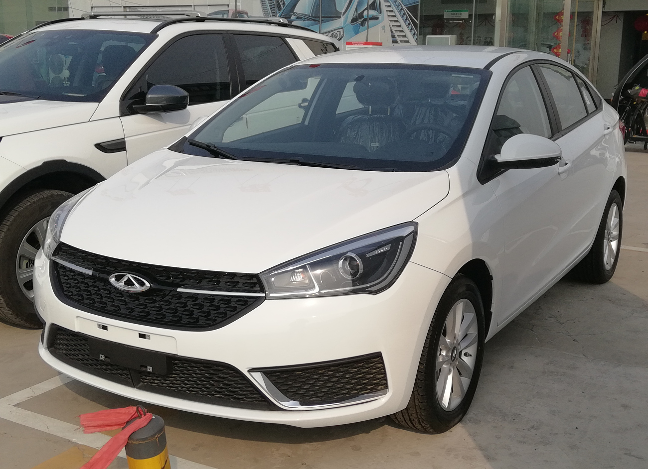 Chery Arrizo 5e photographed in Beijing, China.